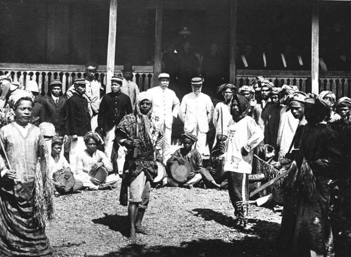 Group portrait with the raja of Tahuna